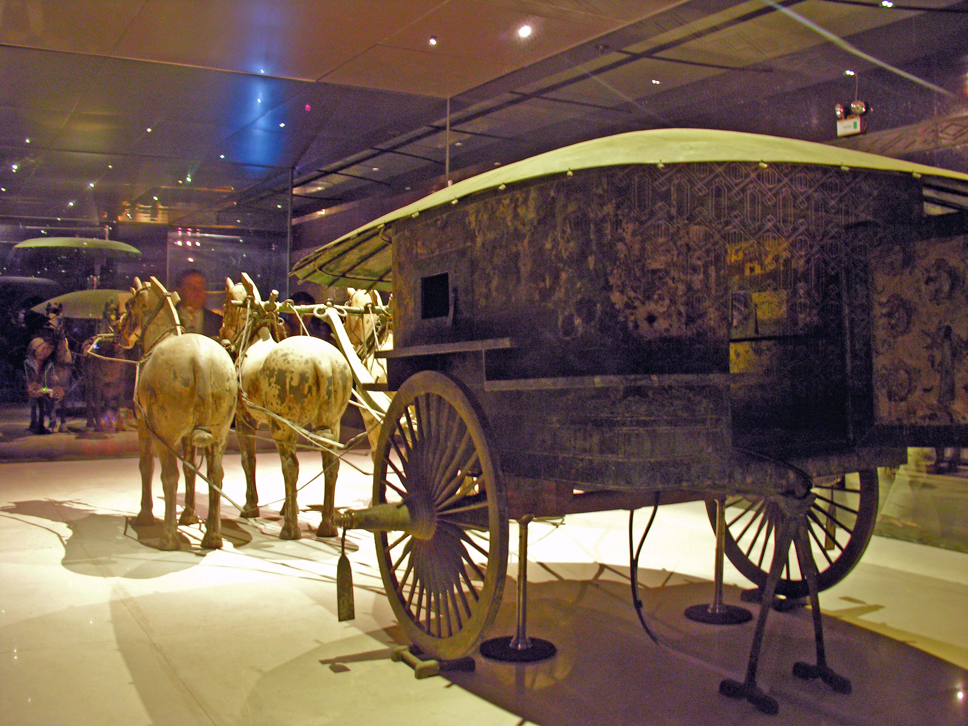 Side of No. 2 Chariot, it is larger than the No 1 chariot, it has 3 windows. Xian, China